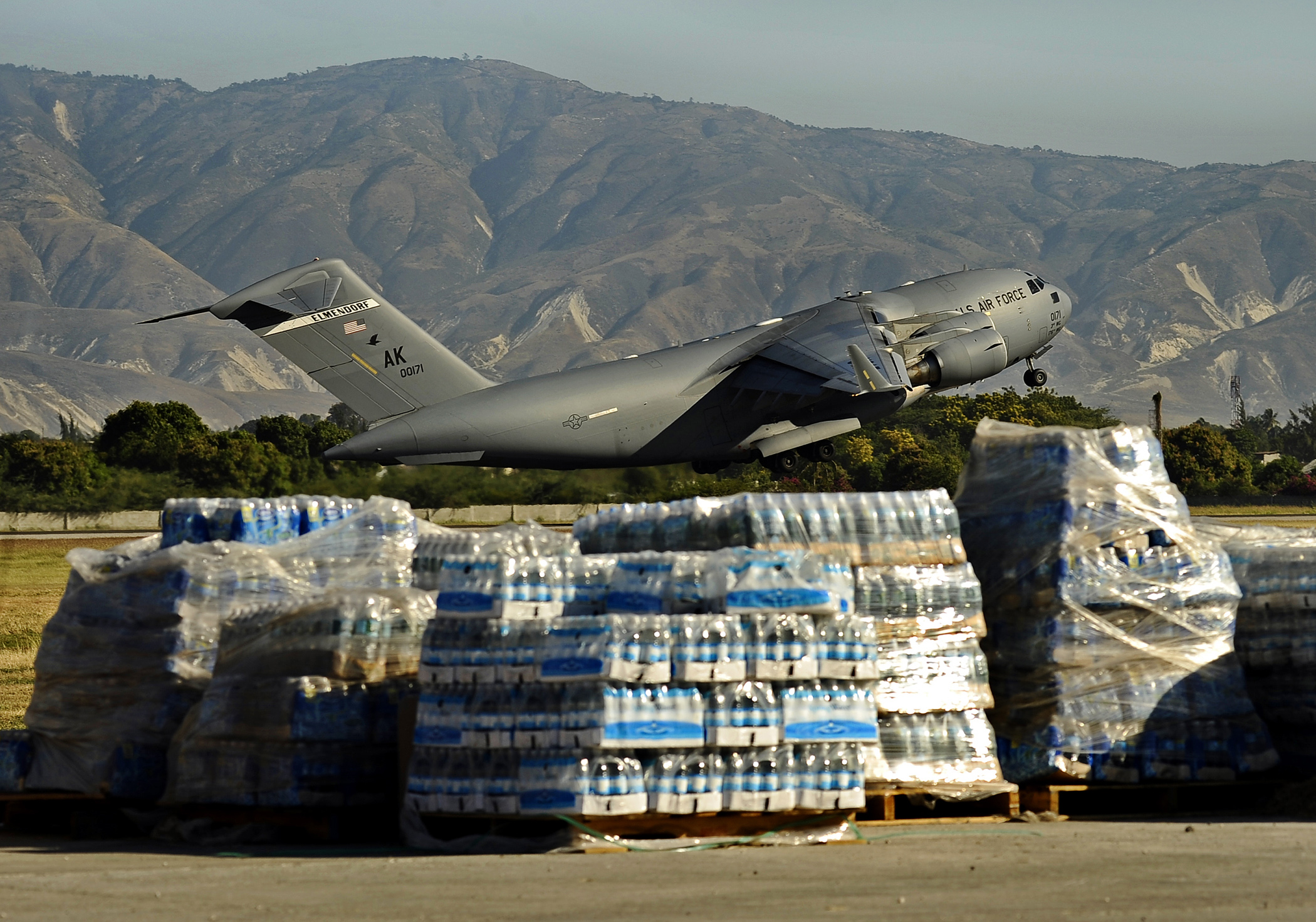 PORT-AU-PRINCE, Haiti (Feb. 2, 2010) A U.S. Air Force C-17 Globemaster transport aircraft lifts off from the runway at Aerodome de Jacmel in Port-au-Prince, Haiti, after delivering humanitarian supplies. Several U.S. and international military and non-governmental agencies are conducting humanitarian and disaster relief operations as part of Operation Unified Response after a 7.0 magnitude earthquake caused severe damage in and around Port-au-Prince, Haiti Jan. 12. (U.S. Navy photo by Mass Communication Specialist 2nd Class Kristopher Wilson/Released)